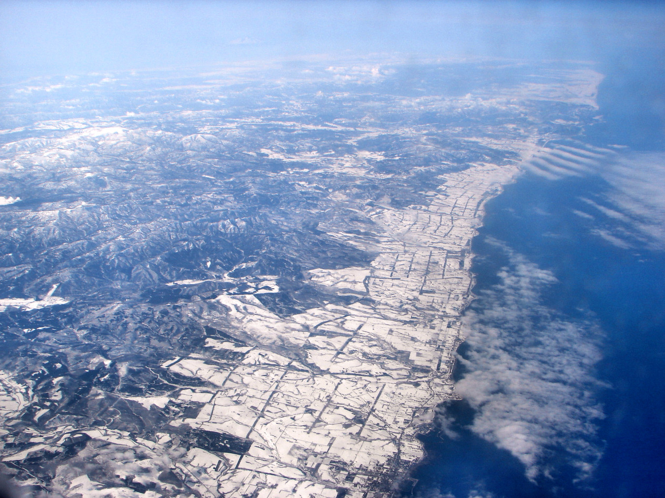 Aerial view of Omu and Esashi, north coast of Hokkaido, Japan